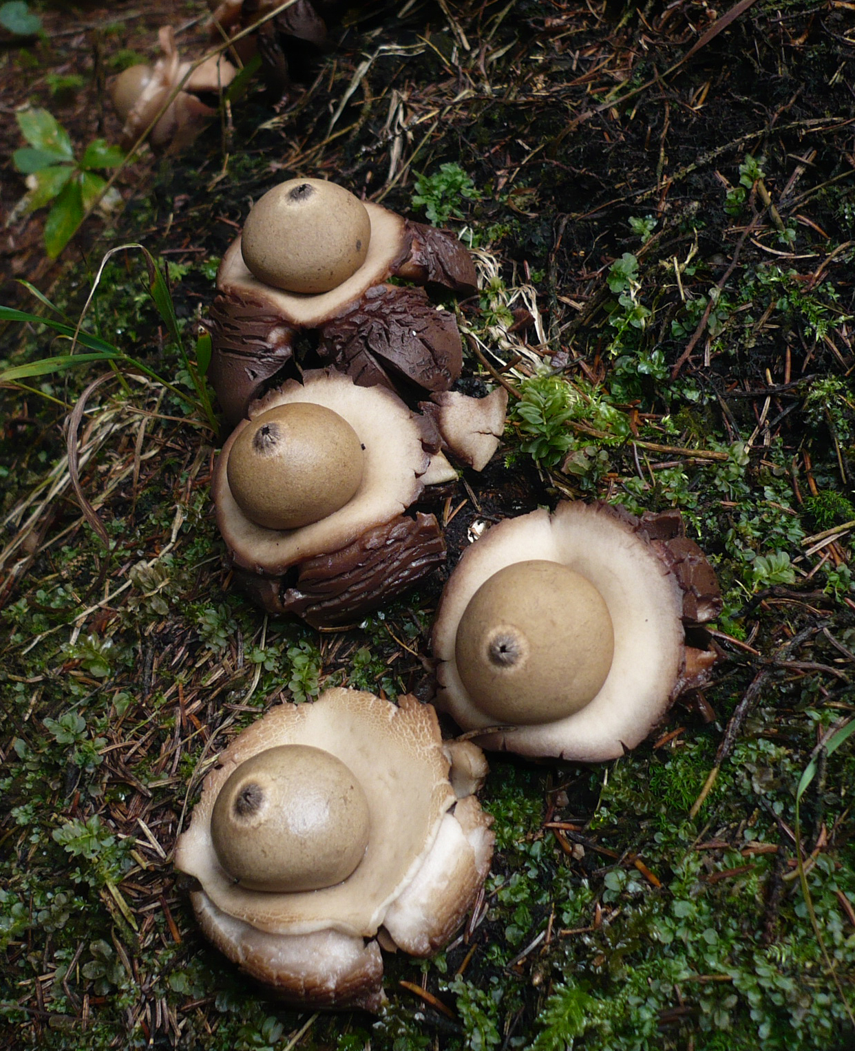 The "collared earthstar" mushroom, species Geastrum triplex. Photographed in Raning,Walstern,Bezirk Bruck an der Mur, Styria, Austria.